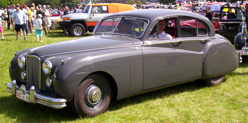 Jaguar Mark VII Saloon 1954